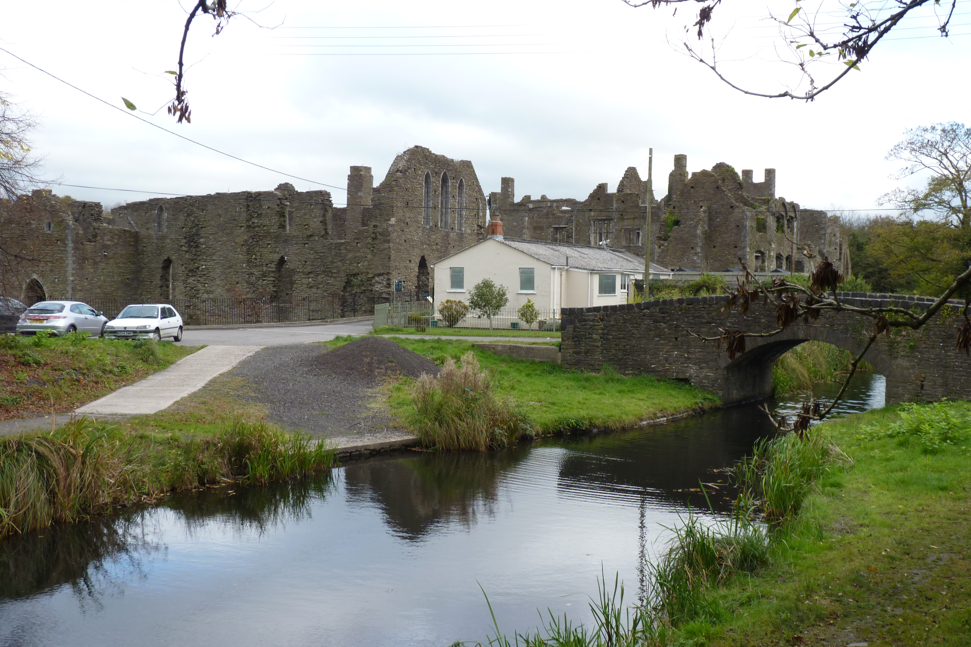 The ruins of the cistercian Neath Abbey, alongside a section of the Tennant Canal, in the Neath valley. On the right of the ruins is a ruined 17th century mansion built within the abbey ruins. The site was heavily industrialised in the 19th C, excavated in the 1920s, is now in the care of Cadw.